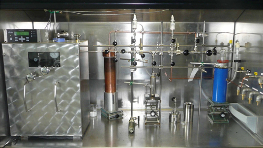 State of the art laboratory apparatus for handling reactions involving fluorine gas. The entire rig is contained in a fume hood and many controls can be operated remotely. The enclosure to the left holds a small cylinder of fluorine. Piping and valves are nickel or monel. Reactions can be done up to 5 atmospheres pressure. Further details at source.